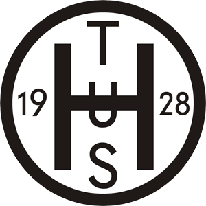 Historical logo of TuS Helene Altenessen, German football team, ca. 1934